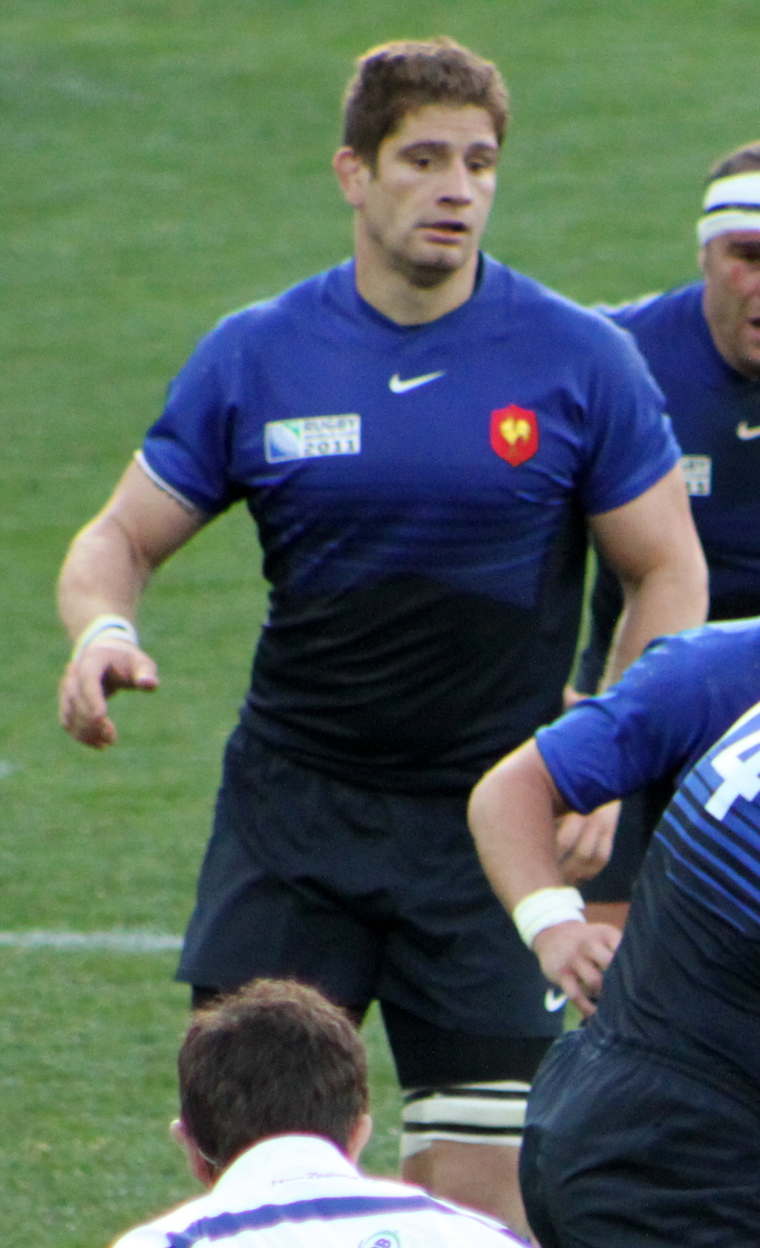 French rugby union player Pascal Papé during 2011 Rugby World Cup match against Tonga.